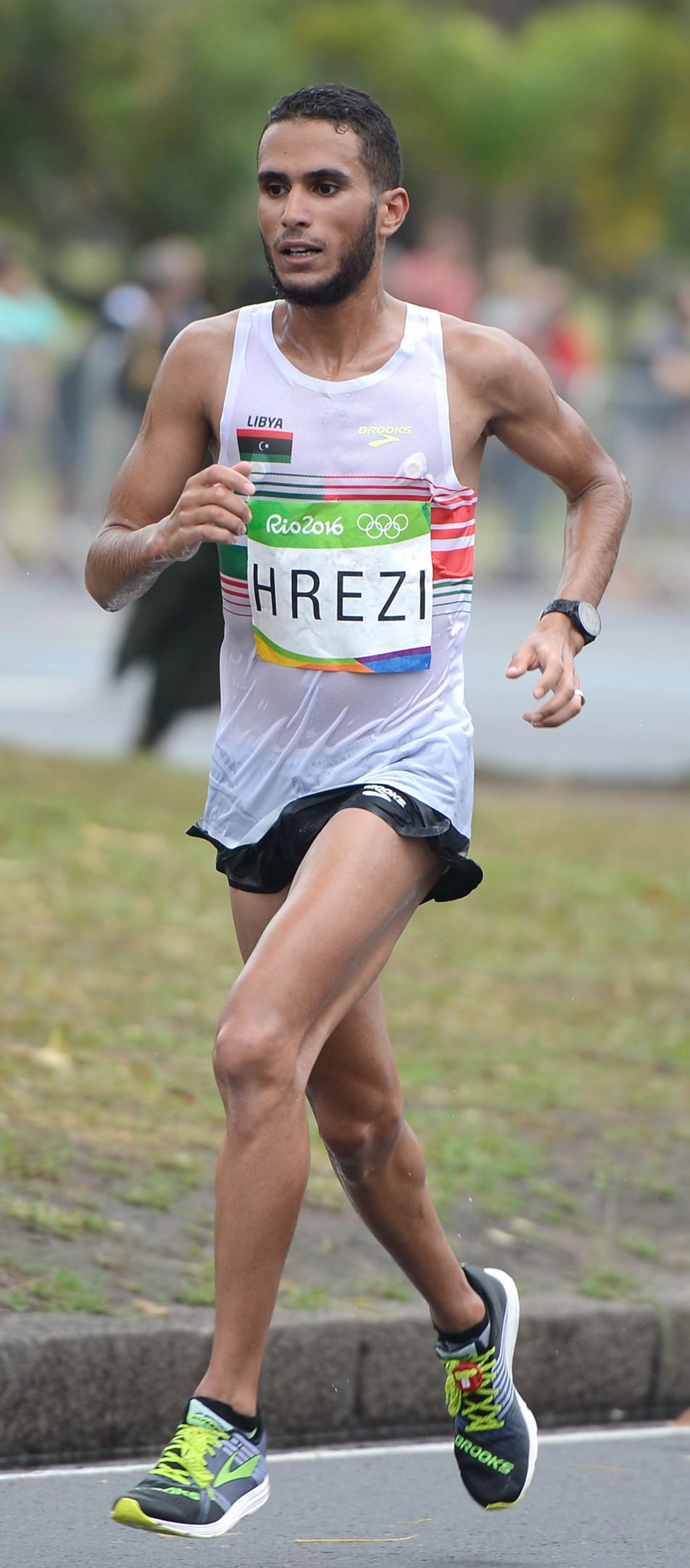 Rio de Janeiro - Sob chuva forte atletas da maratona masculina passam pelo aterro do Flamengo (Tânia Rêgo/Agência Brasil)